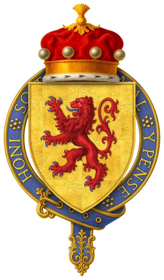 Coat of Arms of Sir Edward Cherleton, 5th Baron Cherleton, KG HOPE, W. H. St. John, ‘’The Stall Plates of the Knights of the Order of the Garter 1348 – 1485: A Series of Ninety Full-Sized Coloured Facsimiles with Descriptive Notes and Historical Introductions,’’ Westminster: Archibald Constable and Company LTD, 1901. “Sir Edward Cherleton, Lord Cherleton of Powys, K.G. 1406-7 -- 1420-1... arms, gold a lion gules” Stall plate remains intact within the ninth stall on the South side of St. George's chapel.